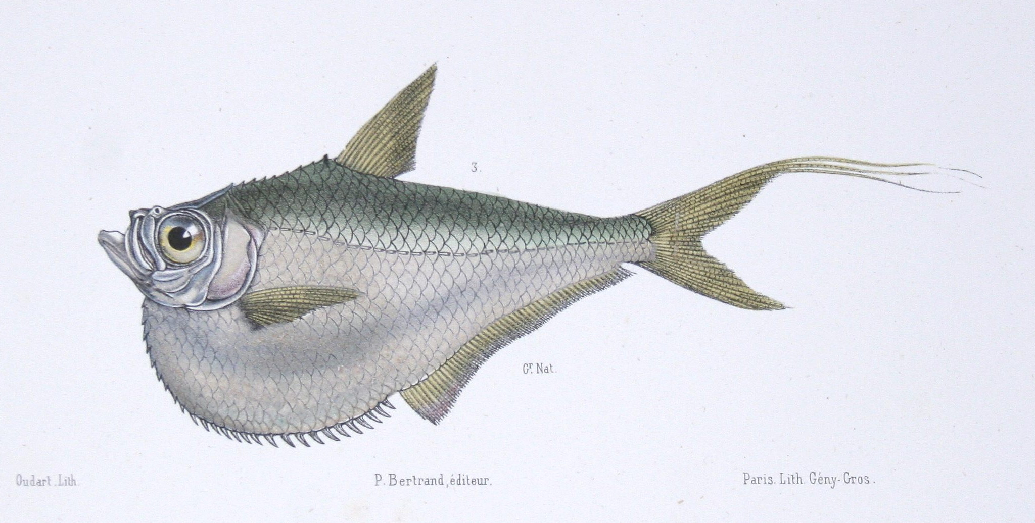 Pristigaster phaeton Cuv. Val. = Pristigaster cayana Cuvier, 1829